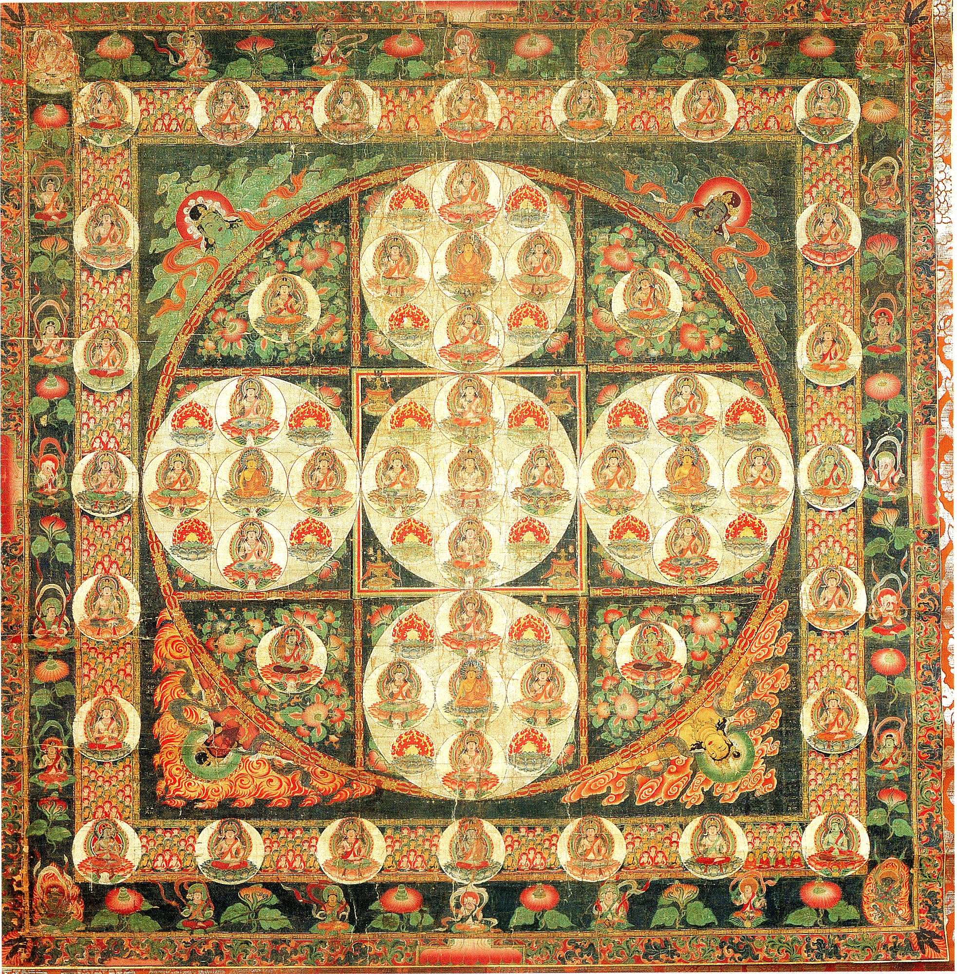 Kongokai_hachijuisson_mandara (Vajradhatu Mandala composed of 81 buddhas)